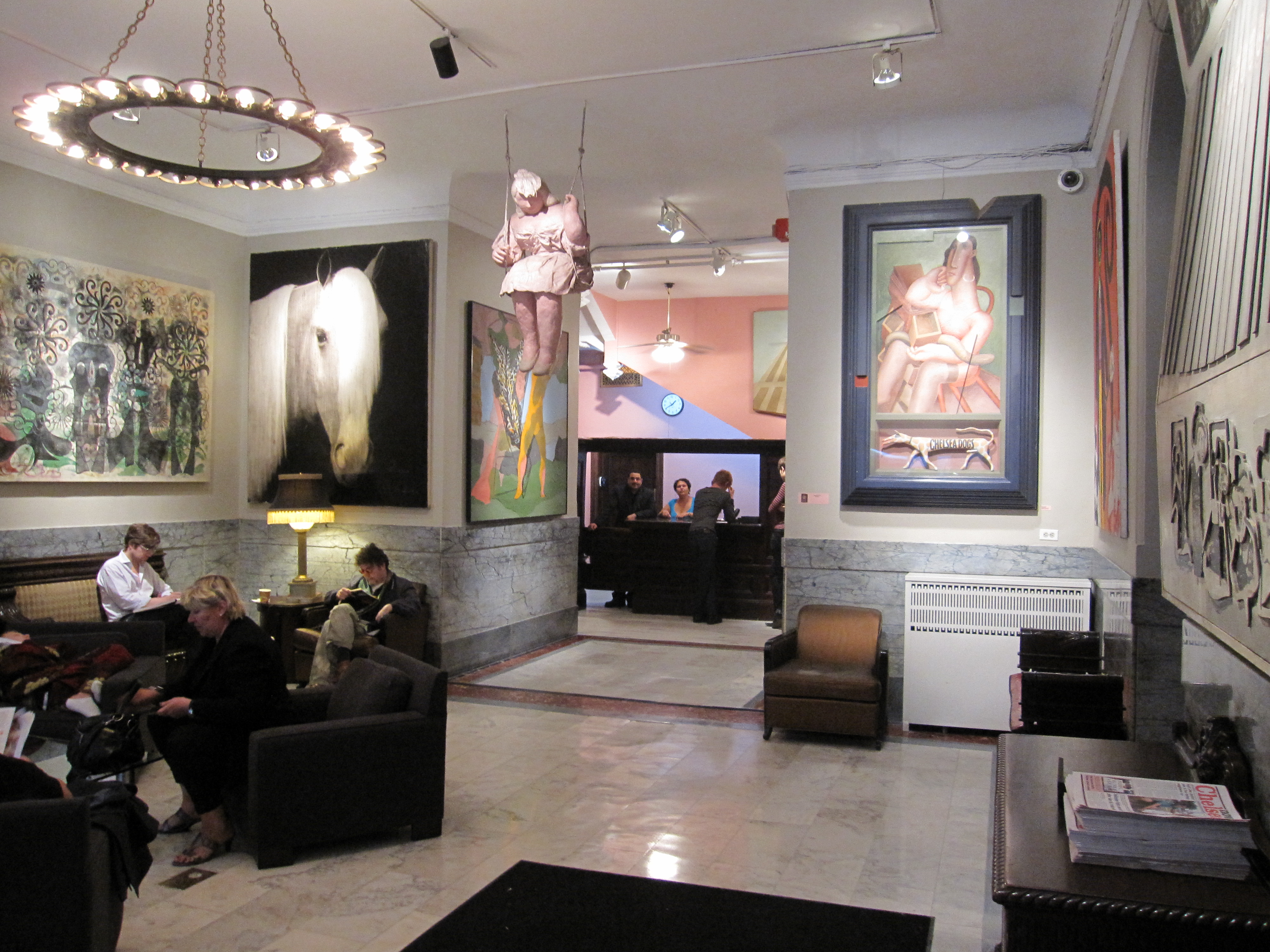 The Hotel Chelsea lobby in 2009.